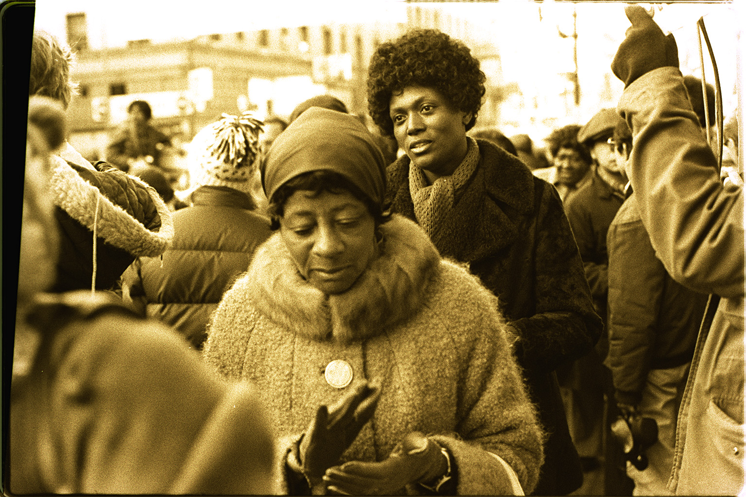 Members of Peoples Temple including Edith Delaney (front) and Earnestine March rally around the International Hotel in San Francisco's Manilatown, 848 Kearny Street during a protest January 1977 against eviction of the hotel tenants. Photo by Nancy Wong